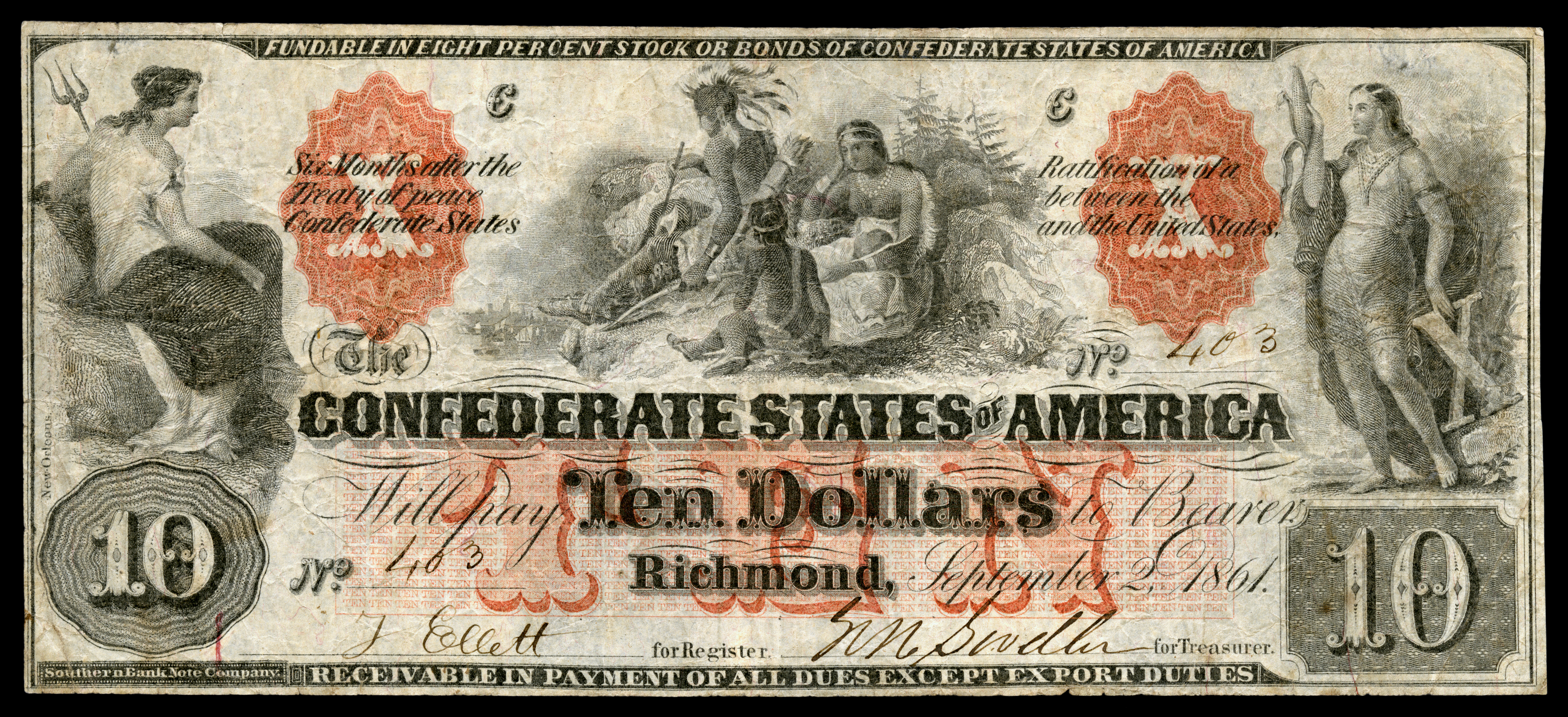 CSA-T22-$10-1861–62